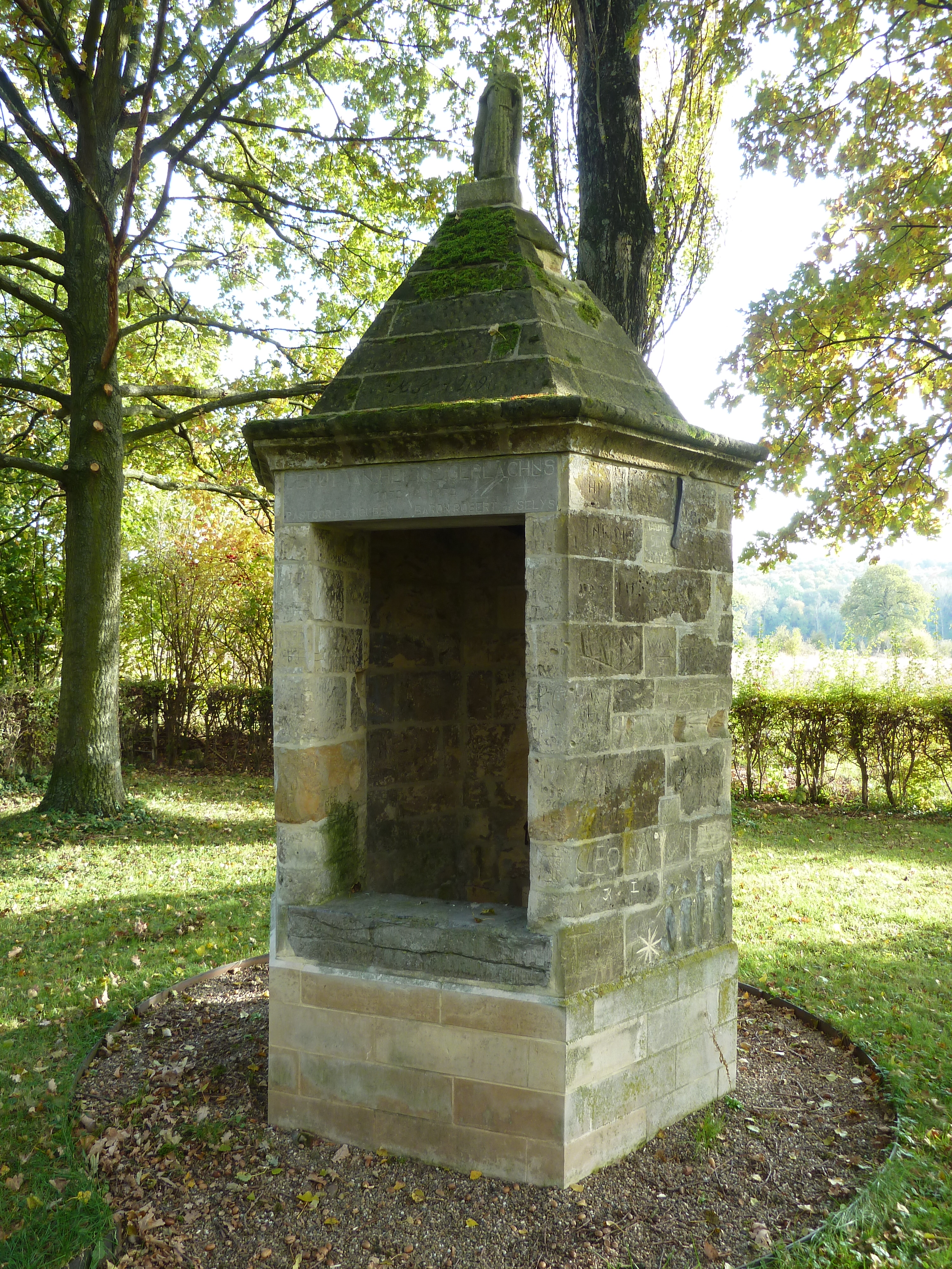 Gerlachusputje, Houthem, Limburg, the Netherlands